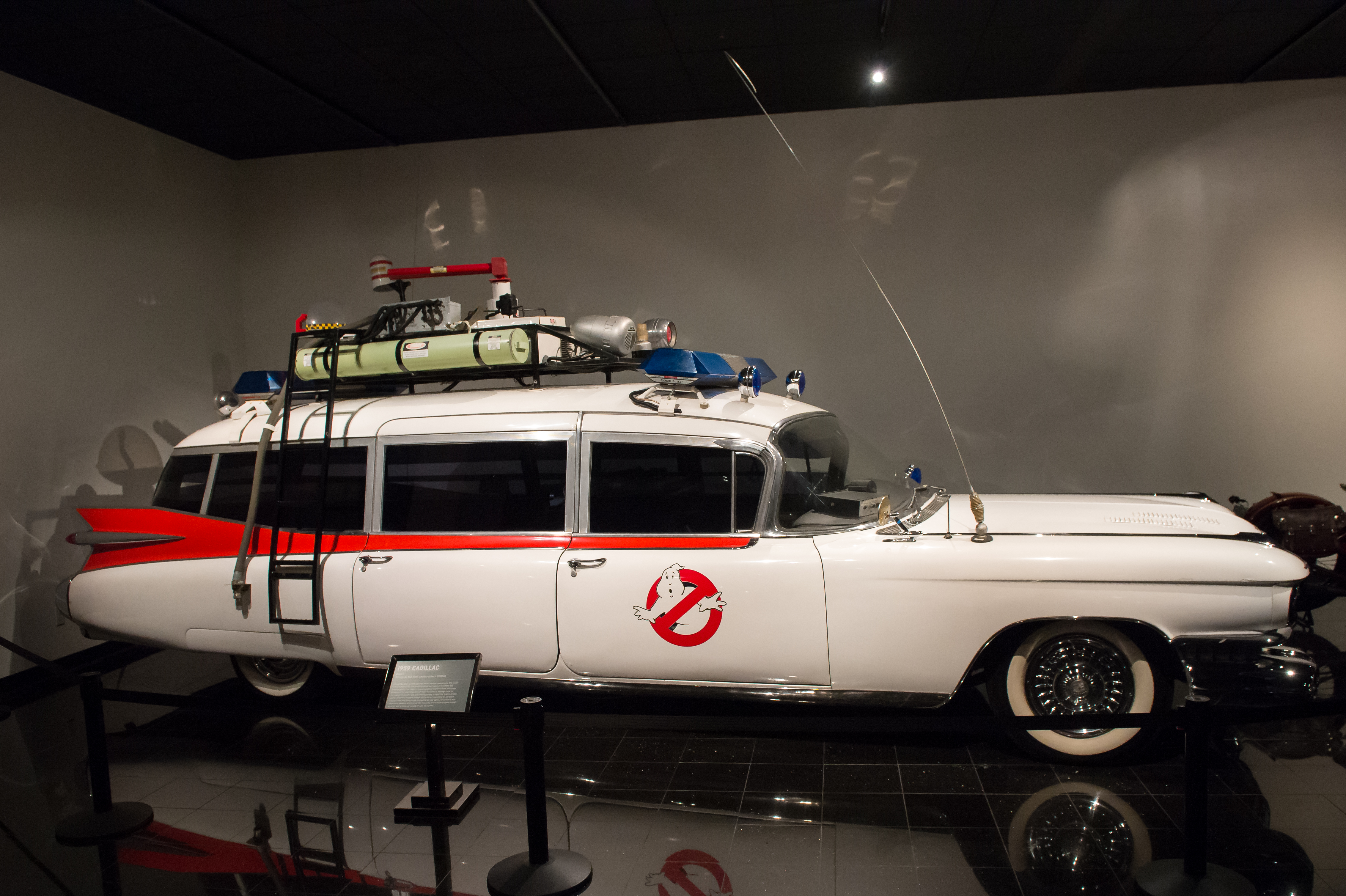 1959 Cadillac Ecto-1 Driven in the film Ghostbusters (1984) Converted from a 1959 Cadillac Miller-Meteor ambulance, the iconic Ecto-1 transported the ghost-busting foursome in the 1984 film Ghostbusters. The vehicle is appropriately outfitted with tools and equipment for apprehending ghosts, including a storage tank for the captured ghosts and a modified gurney to hold the team's proton packs. While the original design of the Ecto-1 specified an all-black exterior with flashing purple and white strobe lights, the vehicle was ultimately painted white since the majority of the scenes were filmed at night and a dark car would be lost on screen. (Collection of Sony Pictures)